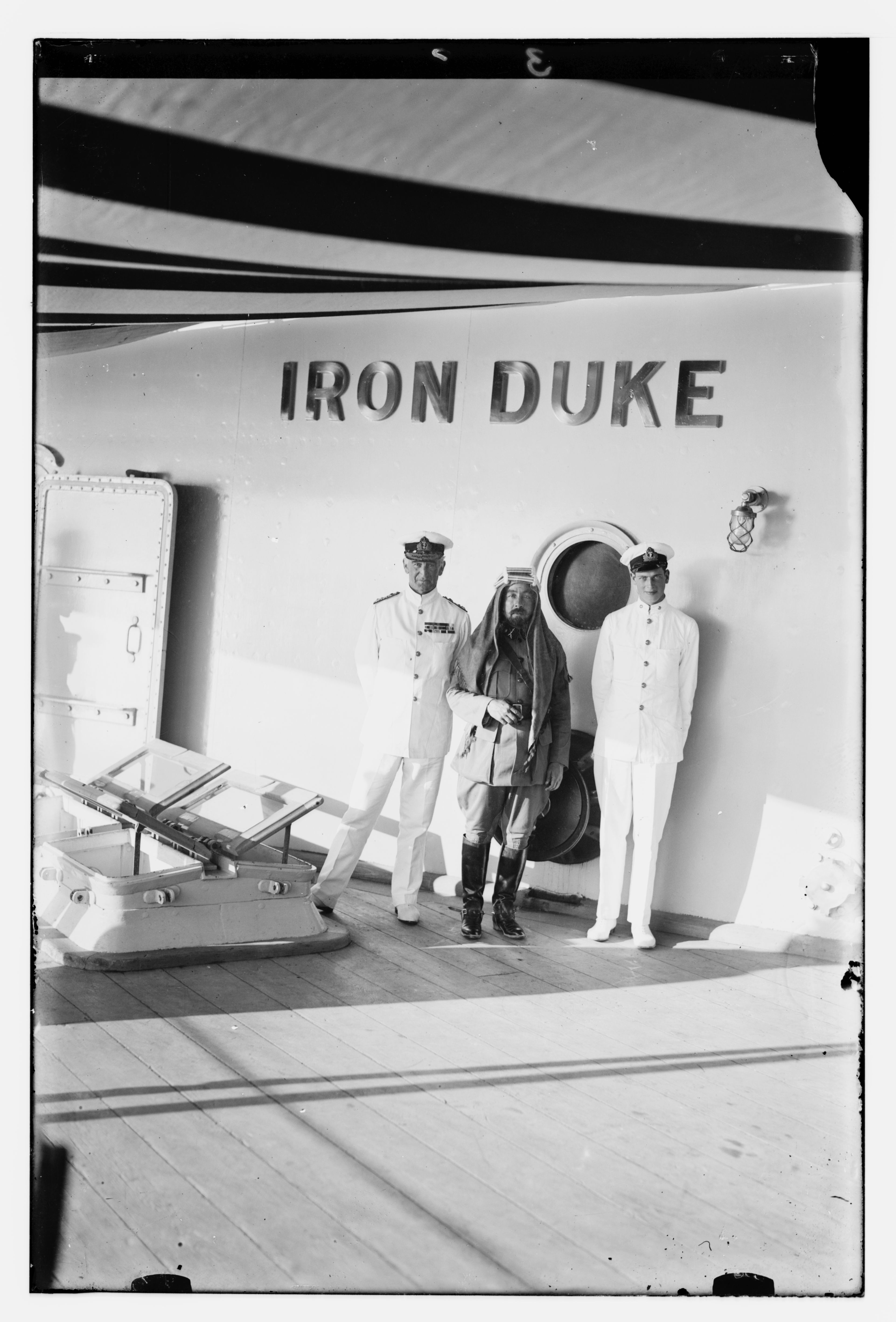 Library of Congress caption : "Admiral de Roebeck (left), Emir Abdullah of Transjordan, and a British naval officer on board the H.M.S. Iron Duke".